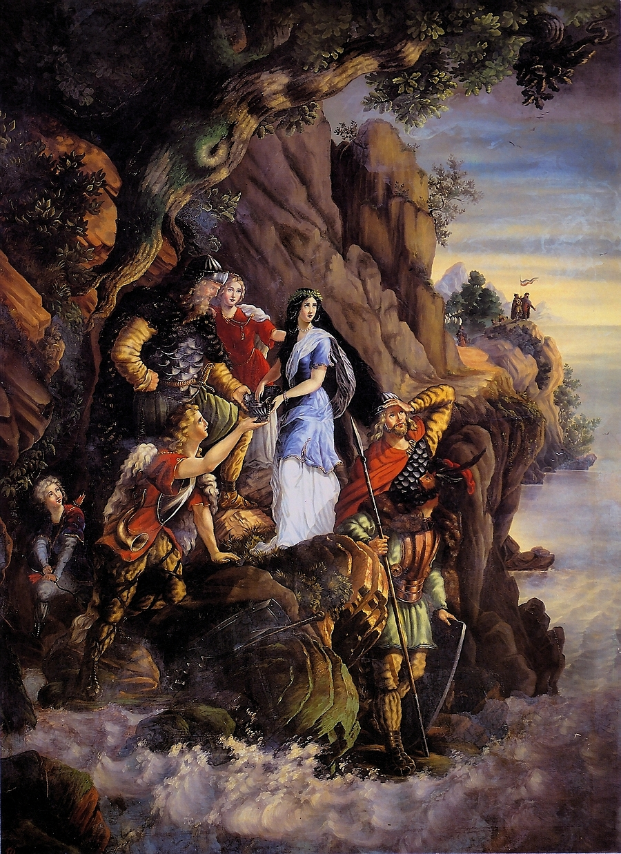 1870's painting by Ferdo Quiquerez The Arrival of the Croats at the sea depicting the five brothers Kluk, Lobel, Muhlo, Kosenc, Hrvat and their two sisters, Tuga and Buga climbing down a clif towards the sea. The painting was inspired by a poem by August Šenoa and a cantata by Ivan pl. Zajc based on the writings of the Byzantine Emperor Constantine Porphyrogenitus about the Croatian people: "One of their tribes, namely five brothers Klukas, Lobelos, Kosentzes, Muhlo, Hrobatos and their two sisters, Tuga and Buga, separated themselves from them and came together with their people to Dalmatia and found the Avars governing these lands. After they waged wars with eachother for some time, eventually the Croats overpowered and killed some of the Avars forcing the rest into submission." - De Administrando Imperio